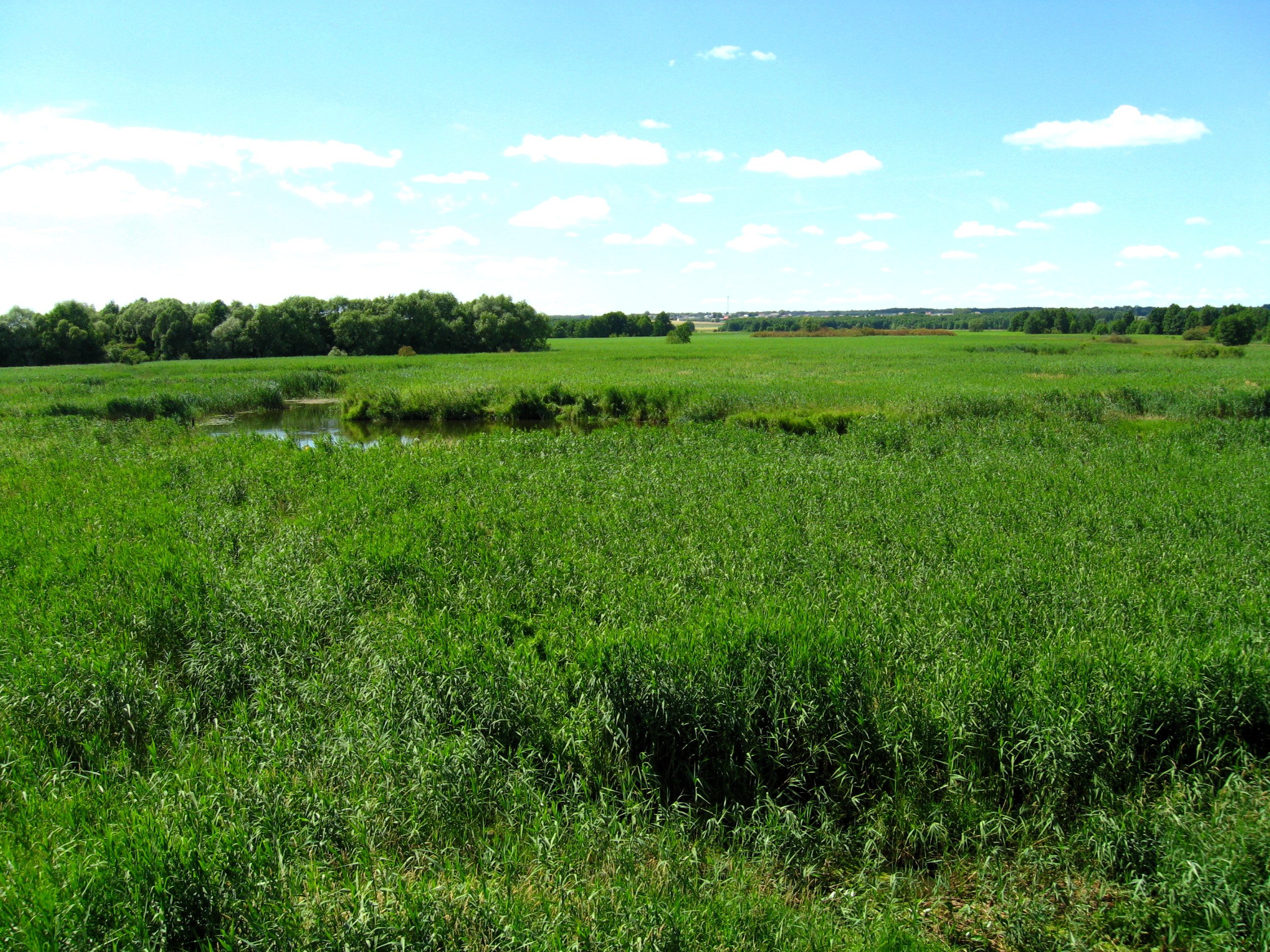 View on Narew's pool from the east abutment of the torn down bridge near Pajewo (west end) and Kruszewo (east end) villages.